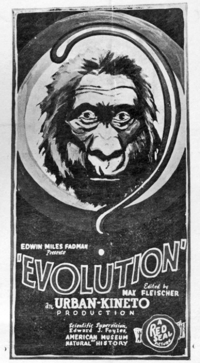 Evolution, 1925 film by Max and Dave Fleischer, poster. While the poster was used to promote the 1925 film, it has already been published with other text in 1923 for the film Evolution. From the Birth of the Planets to the Age of Man